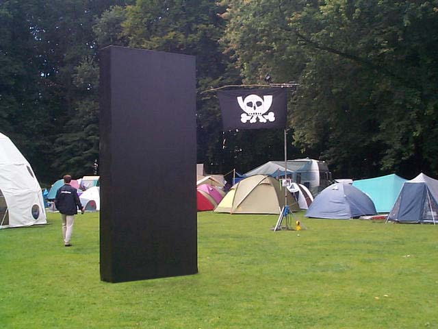 Monolith as displayed at the "Hackers at Large" conference in Enschede, The Netherlands, 10-11-12 August 2001. The monolith has been erected by the German hacker group CCC